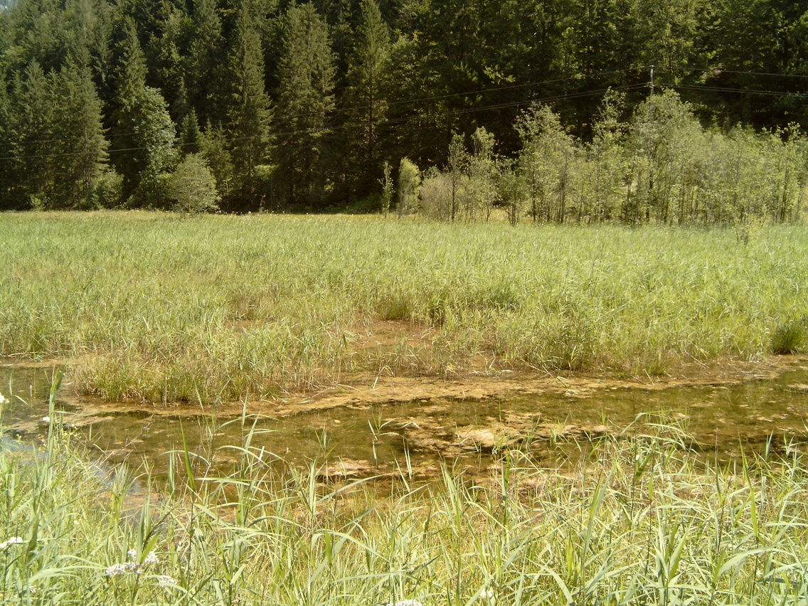 lake "Wiesensee", silt up zone in the flow in area